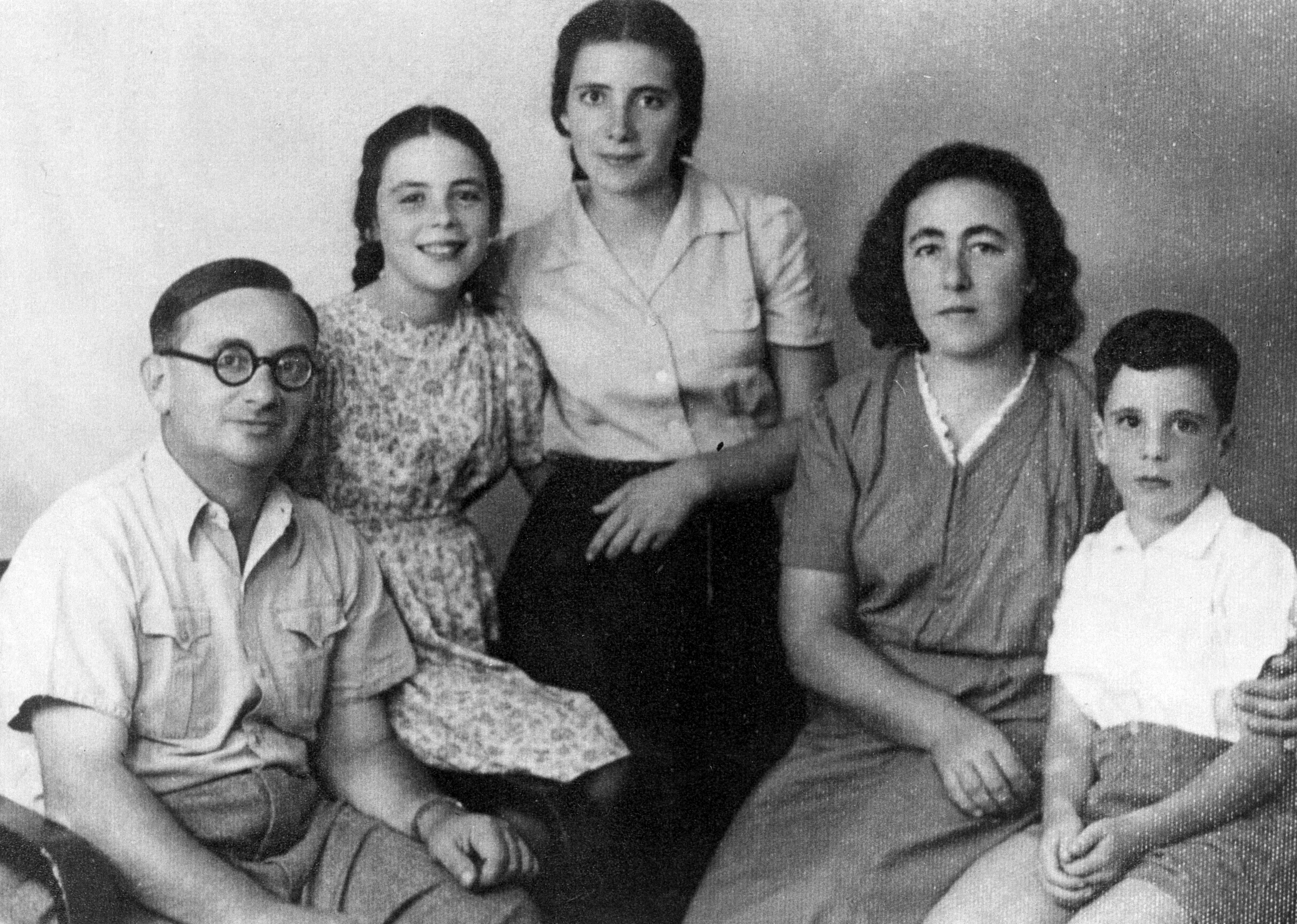 Shmaragd family